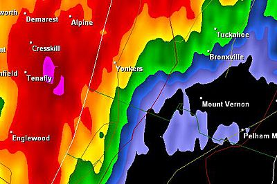 Radar image of a severe thunderstorm that spawned an EF1 tornado in the Bronx, New York